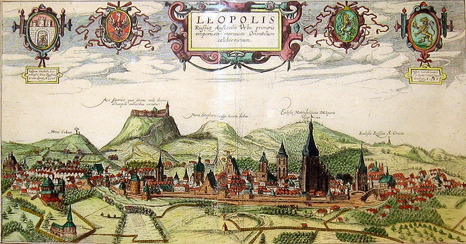 Litography "Lviv"